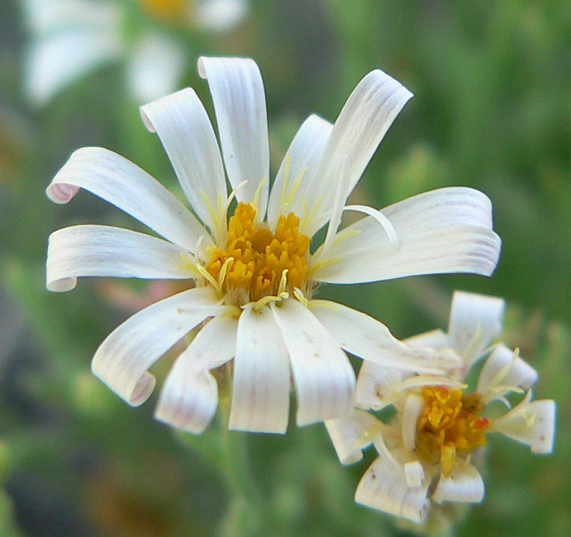 Chaetopappa ericoides in Kyle Canyon, Spring Mountains, southern Nevada